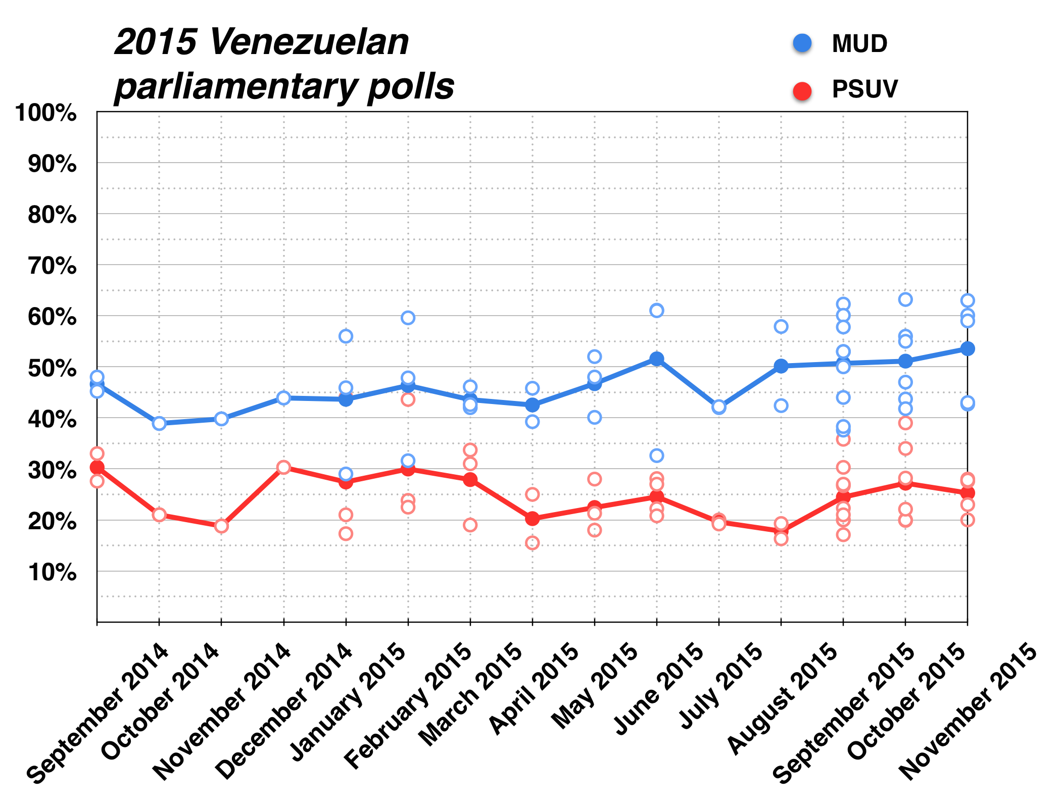 2015 Venezuelan parliamentary polls. Sources: WP election article (English) WP election article (Spanish)